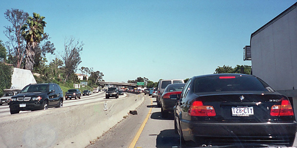 Santa Monica Freeway (Interstate 10), eastbound near Robertson Boulevard, at about 2:30 pm on a typical Wednesday afternoon Taken by user Coolcaesar